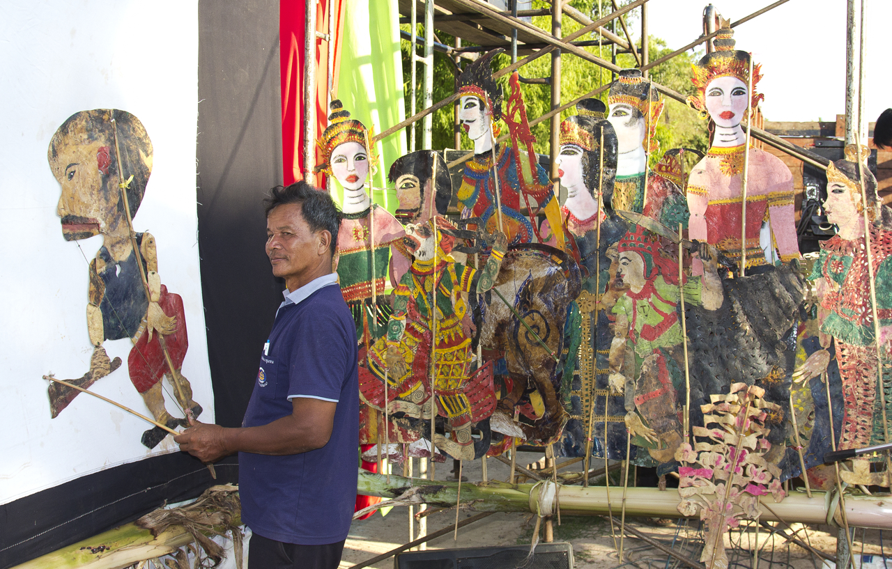 This photo was taken prior to a performance of Sinxay by the Bong Beng shadow puppet theatre troupe. The 62 year old leader of the troupe also manipulates the joker puppet, a role he delights in. You can see many of the puppets to his right stuck in a banana trunk ready to be used during the performance